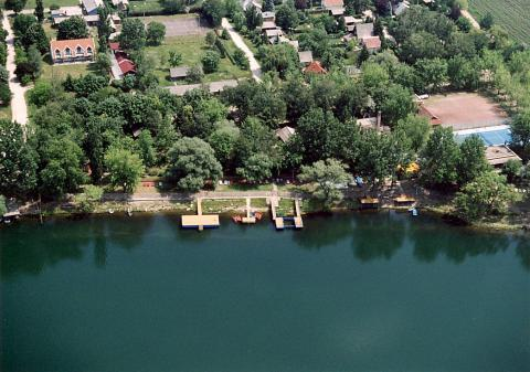 Mályi - beach, Hungary, aerialphotography